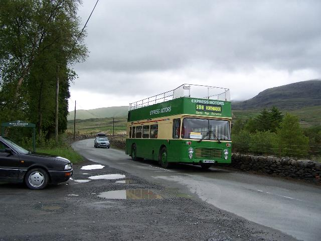 This northerly view shows an open topped bus service crossing the summit of the pass on the A4085 at Pont Cae'r Gors with Snowdon in the background.